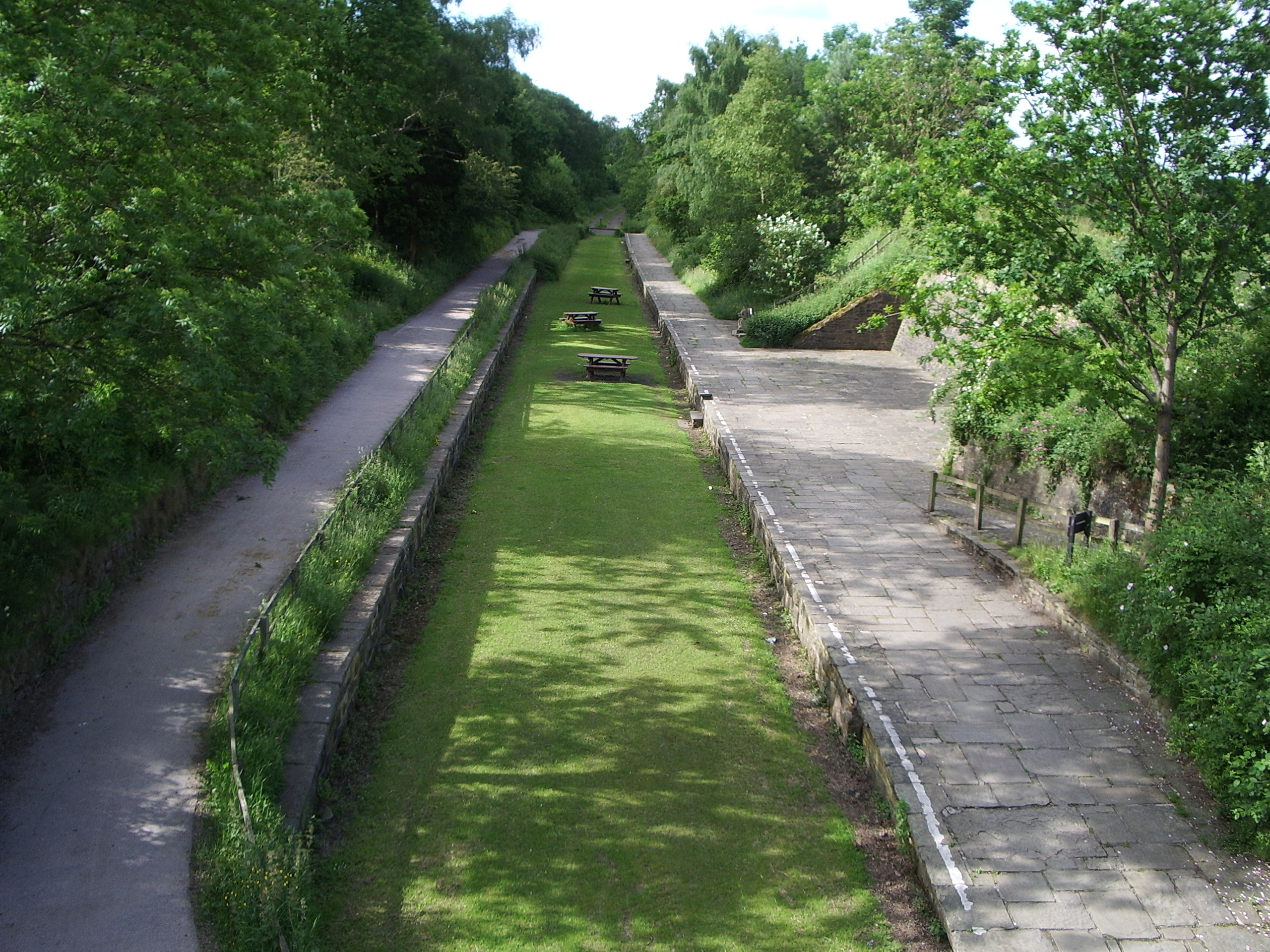 Old station in Higher Poynton, now a picnic area on the Middlewood Way. Following the line from Manchester (via Rose Hill) to Macclesfield.